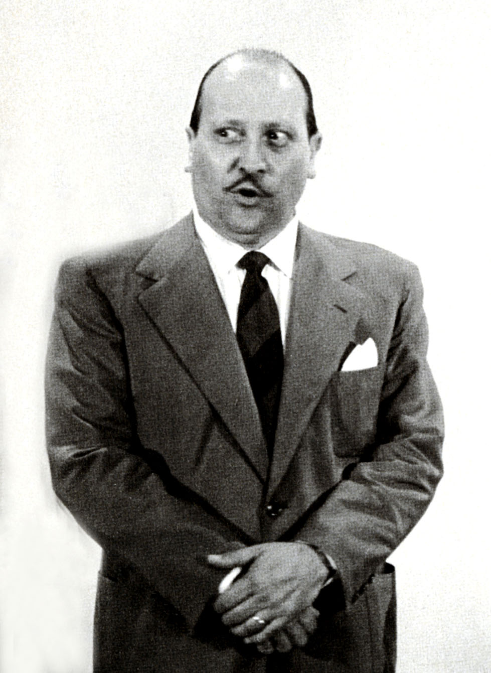 photo from the Italian magazine Radiocorriere (1961)